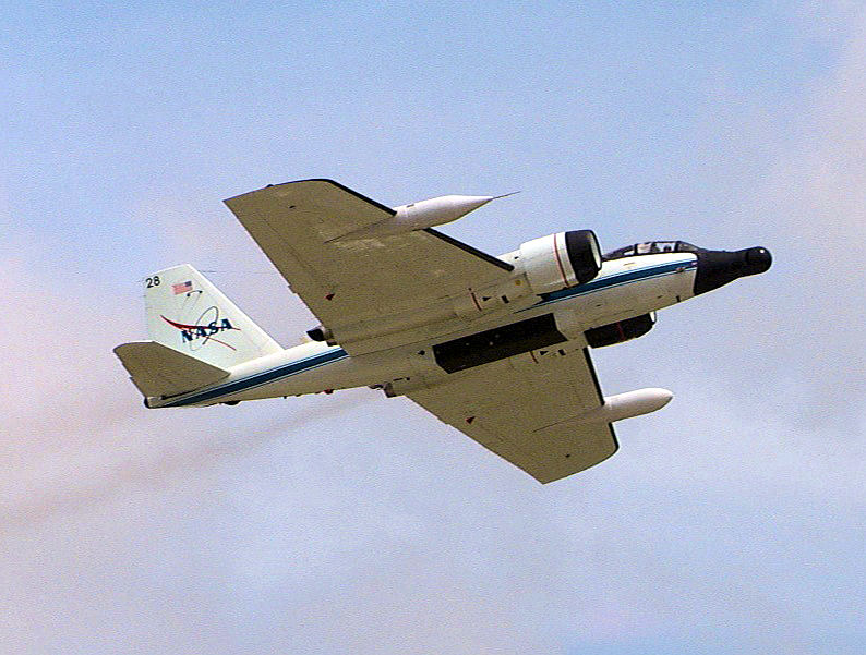 One of NASA's WB-57F jet planes takes to the skies, carrying a special nose-mounted imaging system that will help NASA track and safeguard Shuttle Discovery during STS-114: Space Shuttle Return to Flight. The WB-57s are normally used by NASA’s Johnson Space Center in Houston for high-altitude weather research. An engineering team lead by NASA’s Marshall Space Flight Center in Huntsville, Ala., designed and built the WB-57 Ascent Video Experiment, or WAVE project, a video recording system designed to capture visible-light and infrared imagery of the Shuttle as it lifts off on its journey to orbit. Discovery is expected to launch from NASA’s Kennedy Space Center, Fla., between May 15 and June 3. Aircraft was originally manufactured as a USAF Martin B-57B-MA, 52-1536. Later rebuilt as an as RB-57F 63-13298. loaned to NASA as 928, re-registered as N928NA.